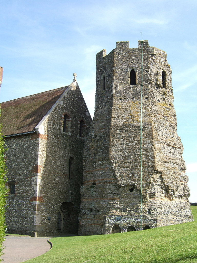 The Pharos lighthouse